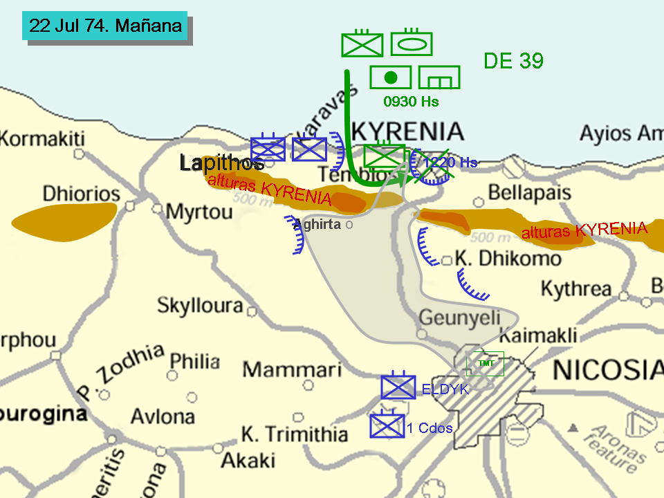 Situación de la mañana del 22 de julio.